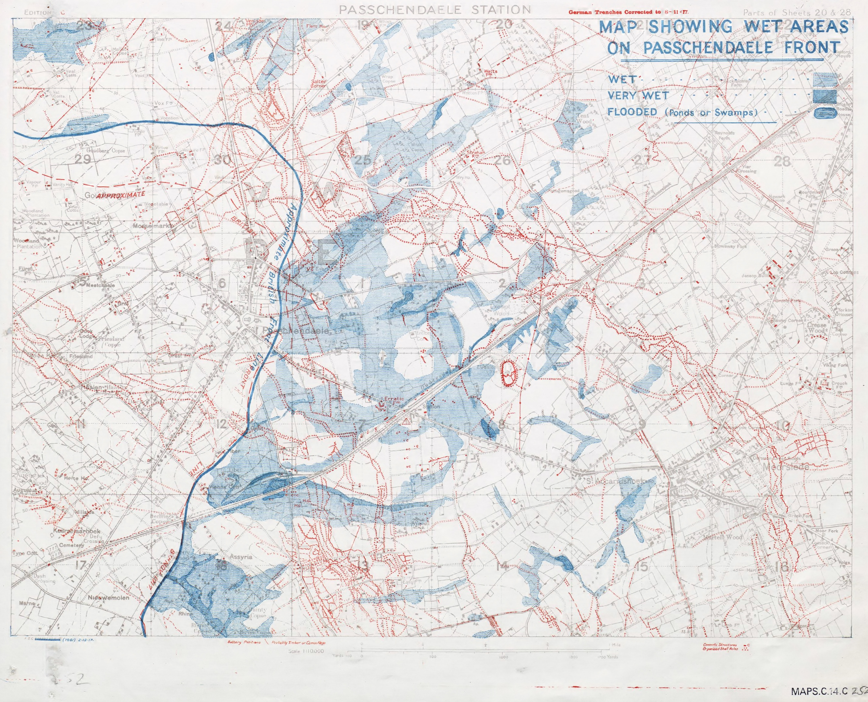 Scale 1:10000; German Trenches corrected to 8-11-17. Title of base sheet: Passchendaele Station. Parts of Sheets 20 & 28. Apart from the German defences (in red), the most notable features of the map are the blue shaded areas. These mark the extensive wet and waterlogged areas facing the front. Exacerbated by poor weather and the devastation of the ground by the intense artillery bombardment, the conditions had continually hampered the advance. Such, in fact, was the fluid and incomprehensible nature of the terrain that the strong blue line marking the front is only an approximation. Map showing waterlogged areas on the western approaches to Passchendaele village, 1917.